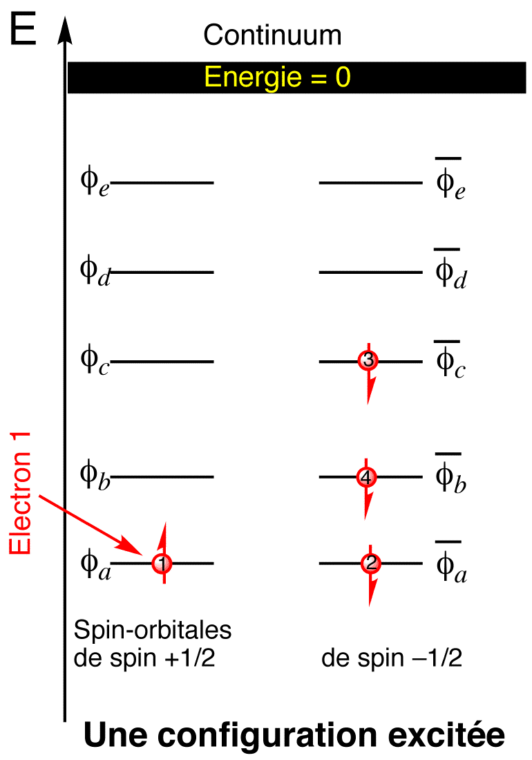 Illustration for electron configuration